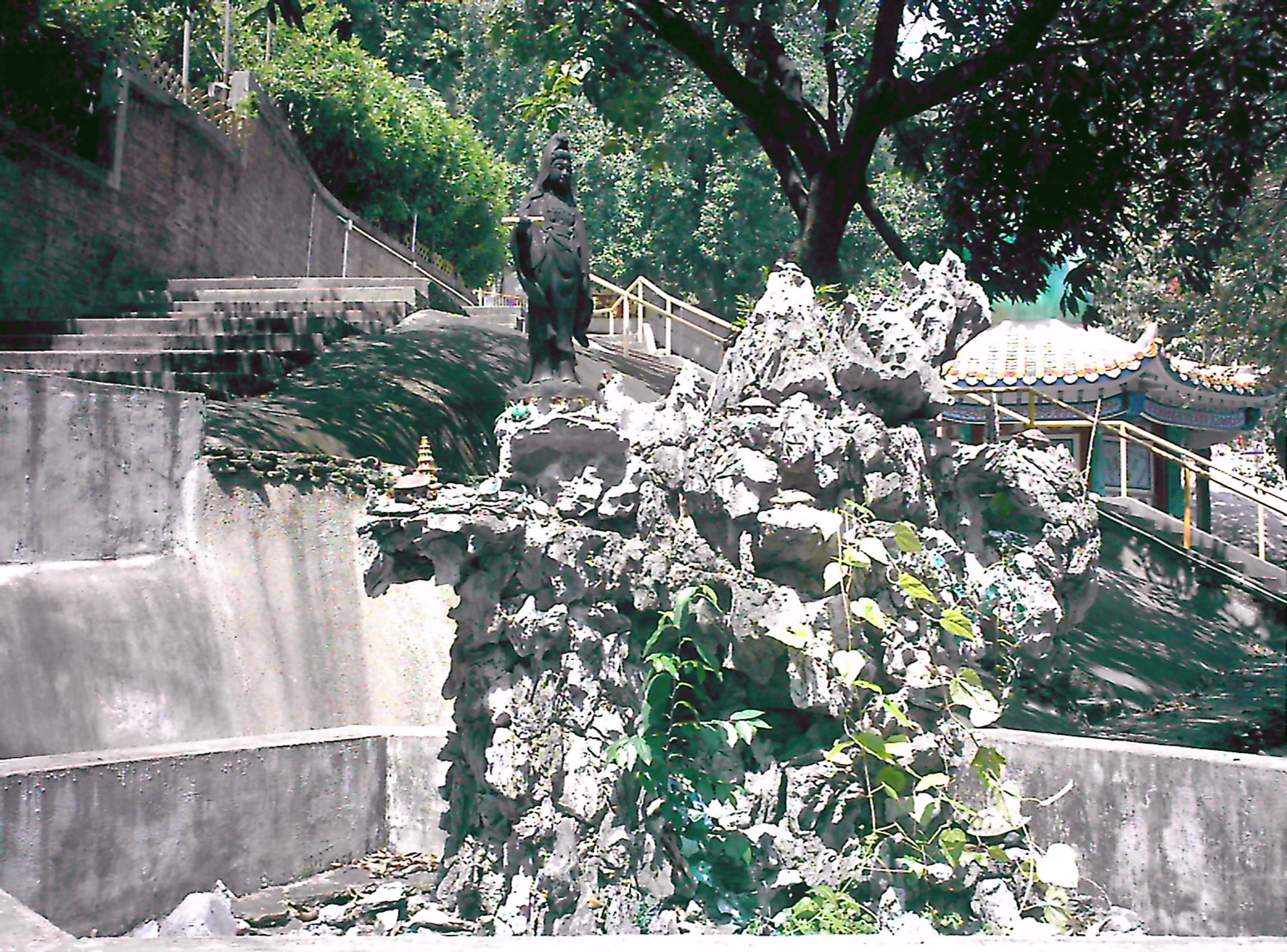 Huazhung Temple Sculpture, Hong Kong and Kowloon Fuk Tak Buddhist Association 中文（香港）: 港九福德念佛社，靈龜禮佛雕塑